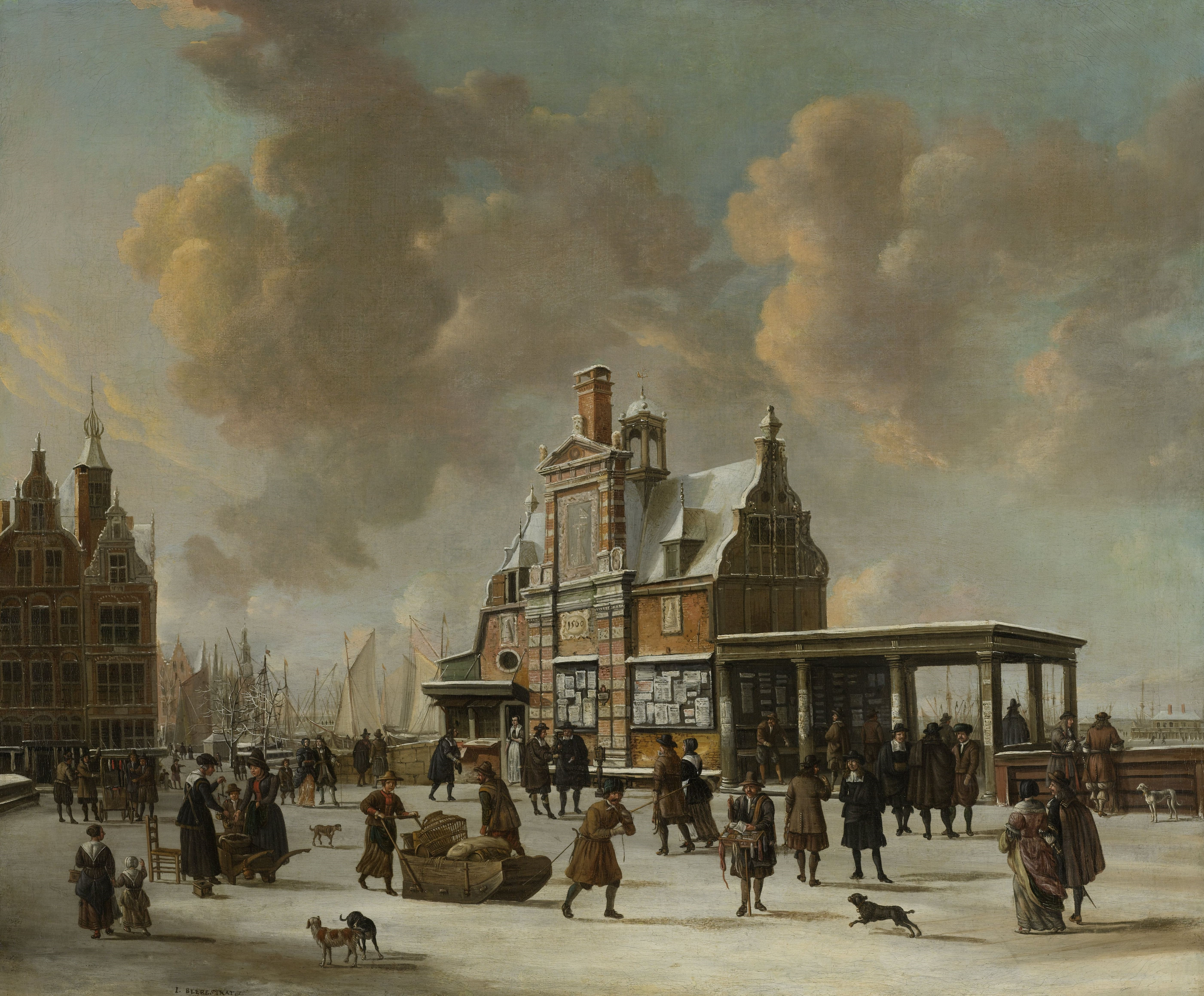 The Paalhuis and the Nieuwe Brug overlooking the IJ in Amsterdam during wintertime. On the left the first two houses of the Damrak can be seen. There is much activity in front of the building with street sellers and two people moving a sled.